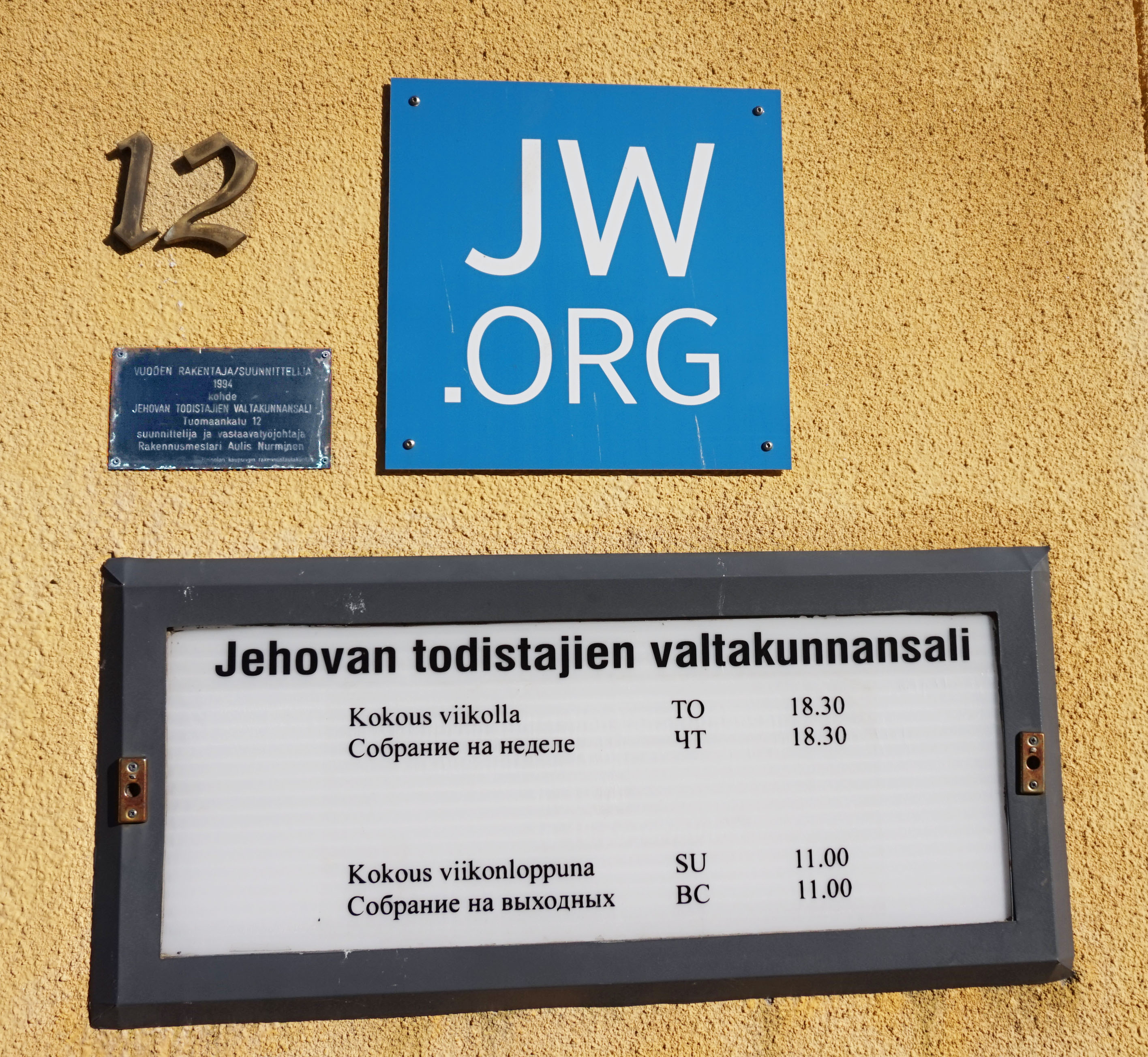 Kingdom hall of Jehova's Witnesses in Heinola.